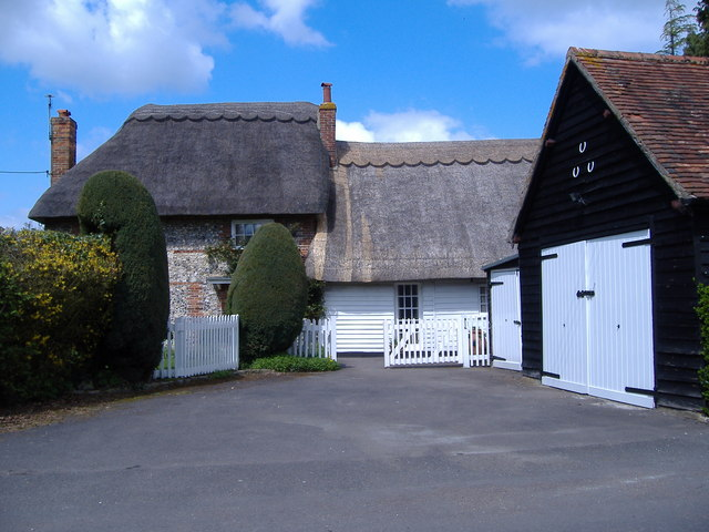 Thatched Cottage, Meadle. This is one of the attractive cottages in the hamlet of Meadle, taken on a sunny Spring morning.